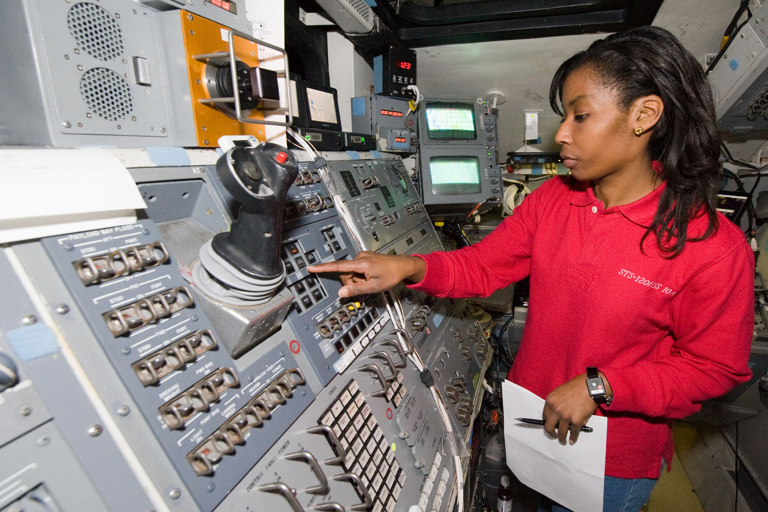 NASA astronaut Stephanie Wilson, STS-131 mission specialist, participates in an undocking timeline training session in the Guidance and Navigation Simulator in the Mission Simulation Development Facility at NASA's Johnson Space Center.